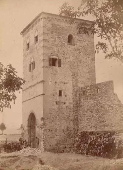 Porta Villalta 1885, udine